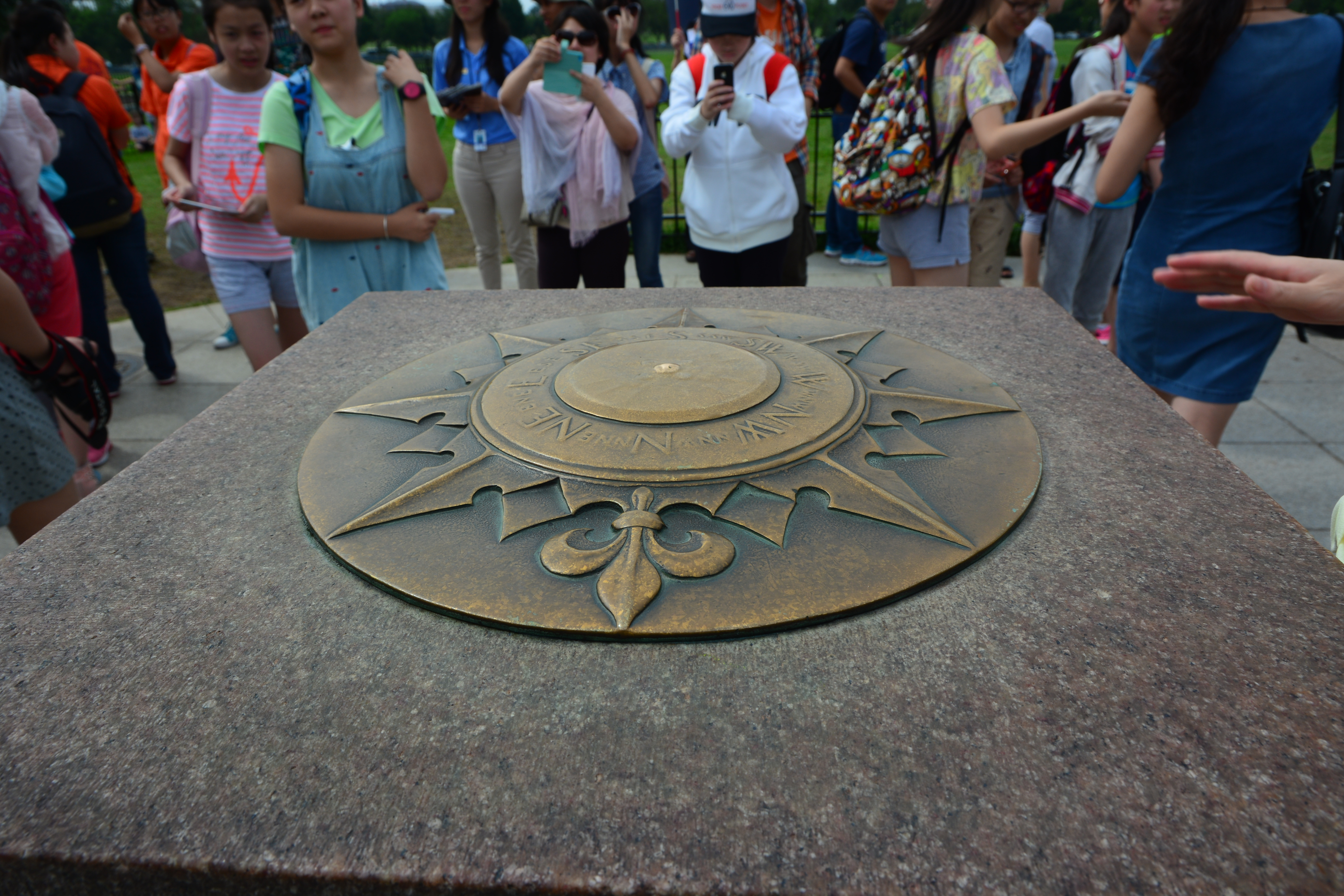 Kilometre zero of US